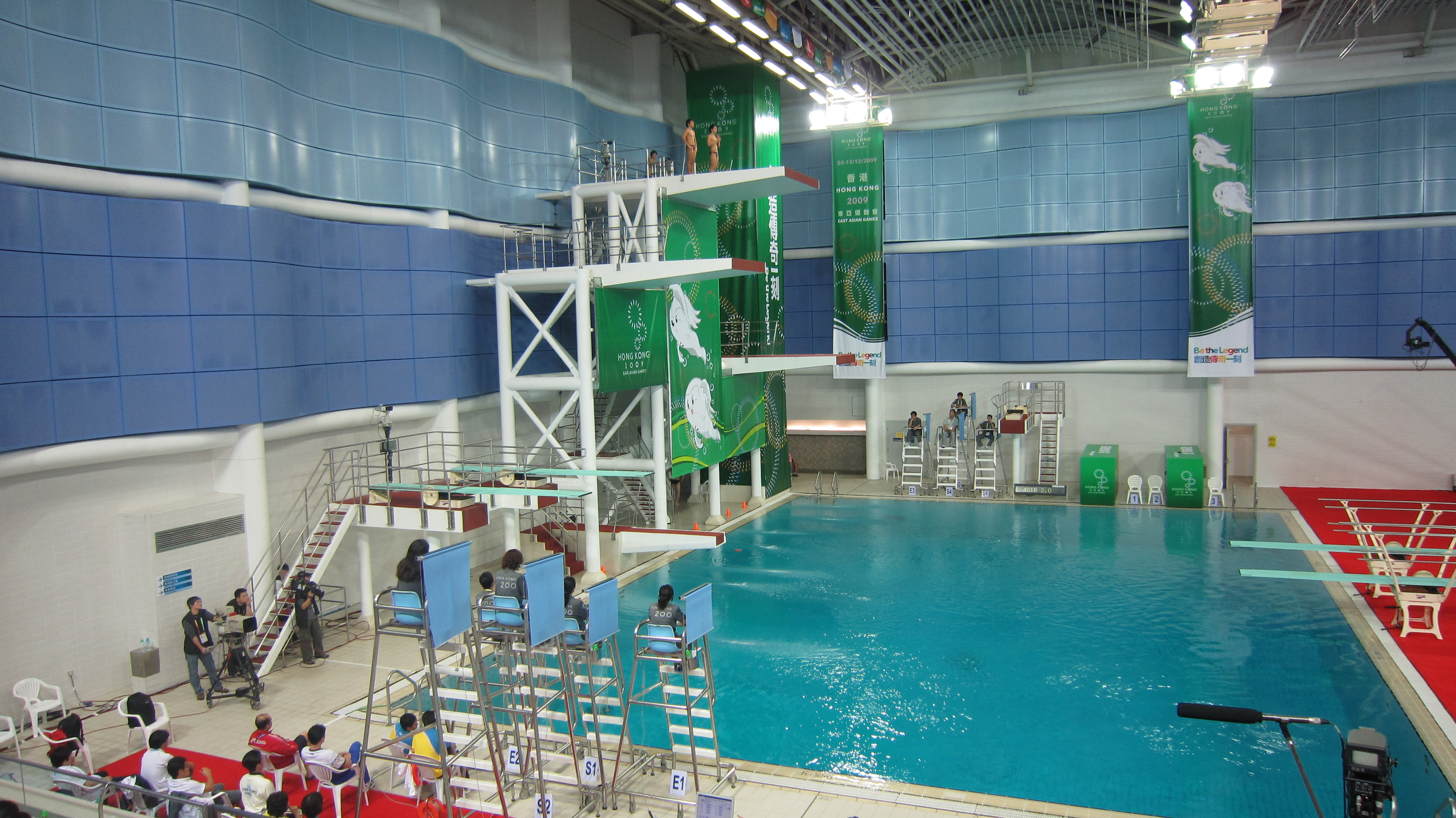 Hong Kong East Asian Games